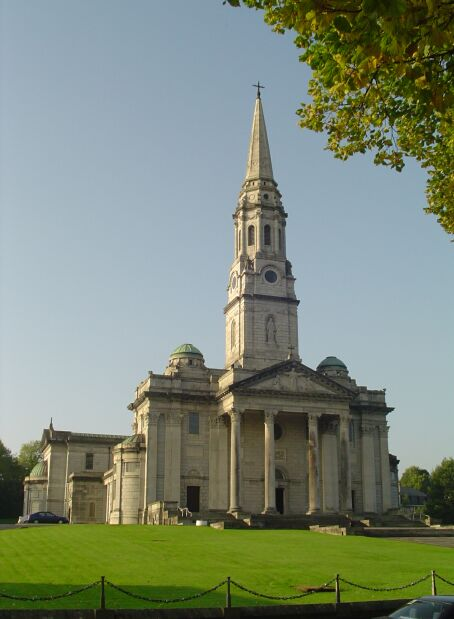 Cavan Cathedral of Saints Patrick and Felim, Ireland.